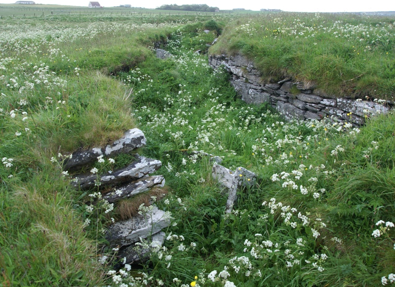 Nybster Broch, Caithness, Scotland - from west, the northern stairs of the blockhouse/forework